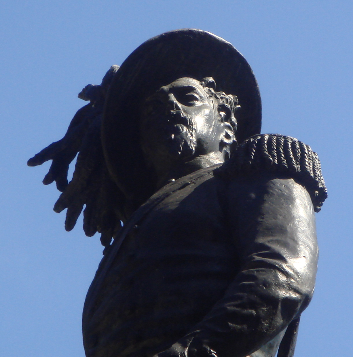 Francesco Barzaghi (1839-1892), Monument (1894) to the Italian patriot Luciano Manara (1824-1849) in the "Giardini pubblici di Porta Venezia" gardens, in Milan, Italy. Picture by Giovanni Dall'Orto, June 23 2007.